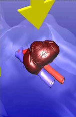 Illustration of the direction of pressure of a cardiac compression on a heart